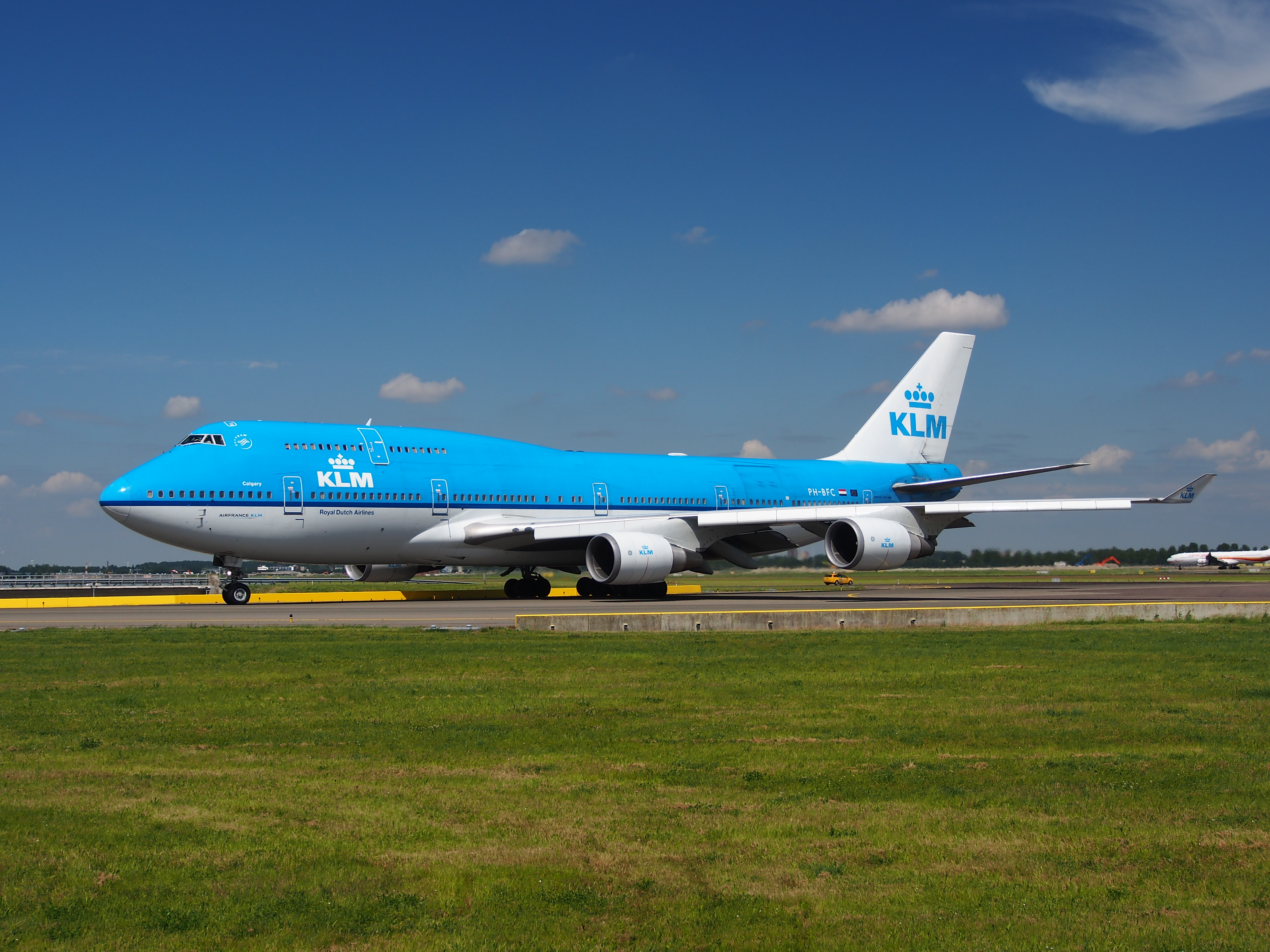 Photographed at Amsterdam Schiphol Airport (AMS - EHAM), The Netherlands.